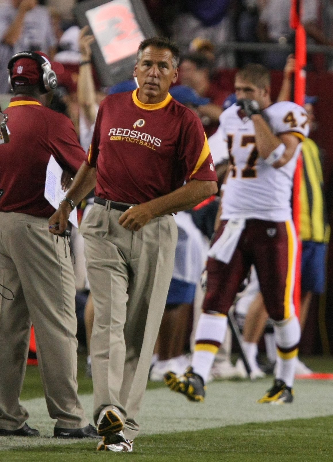 Washington Redskins coach Jim Zorn during the preseason NFL football game against the New England Patriots, Friday, Aug. 28, 2009, in Landover, Md.